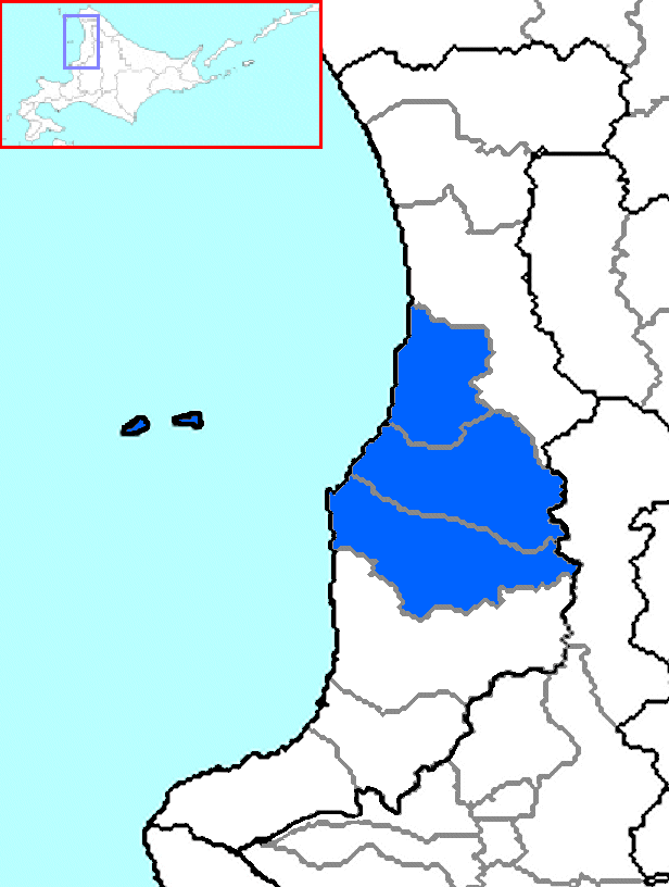 The location of Tomamae District in Rumoi Subprefecture, Hokkaido Prefecture, Japan.